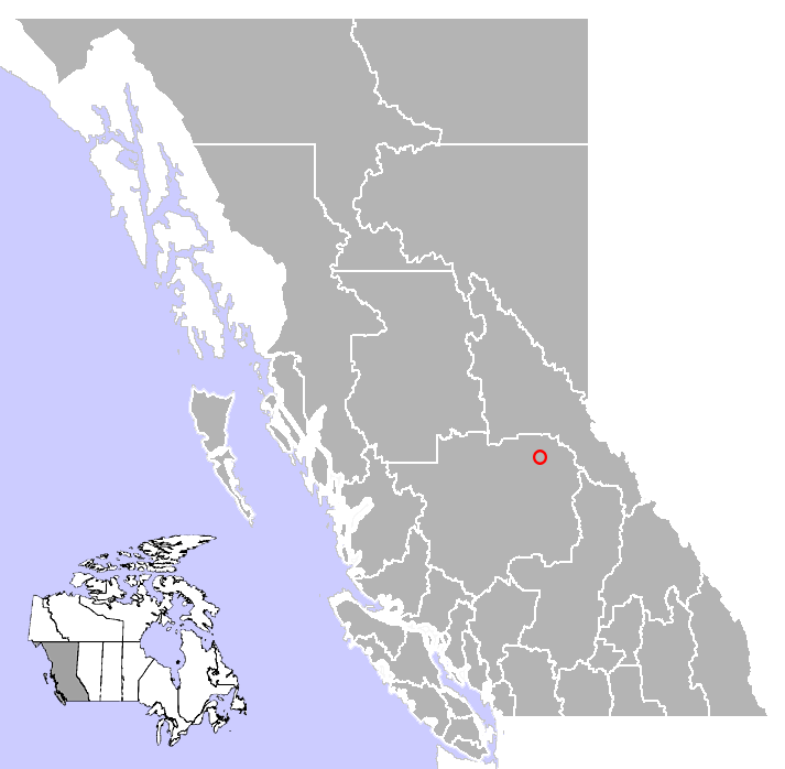 Location of Wells, British Columbia, Cariboo Regional District, British Columbia